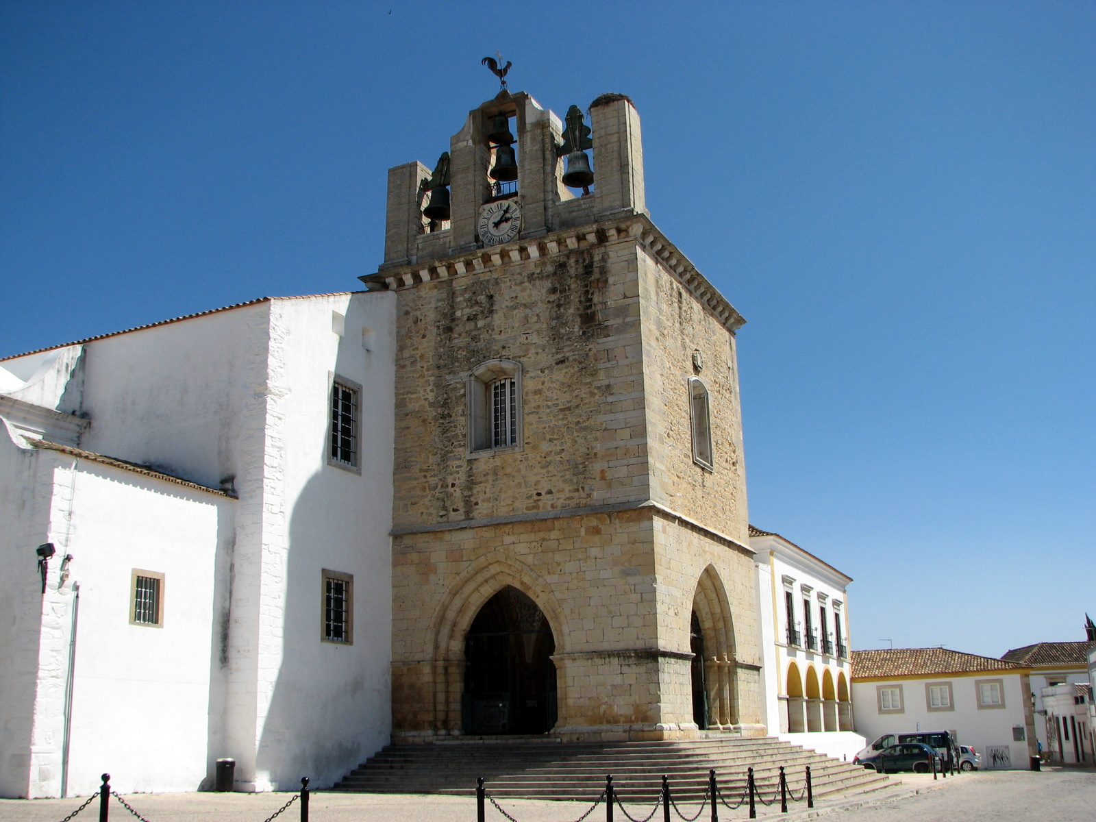 Cathedral of Faro, Portugal